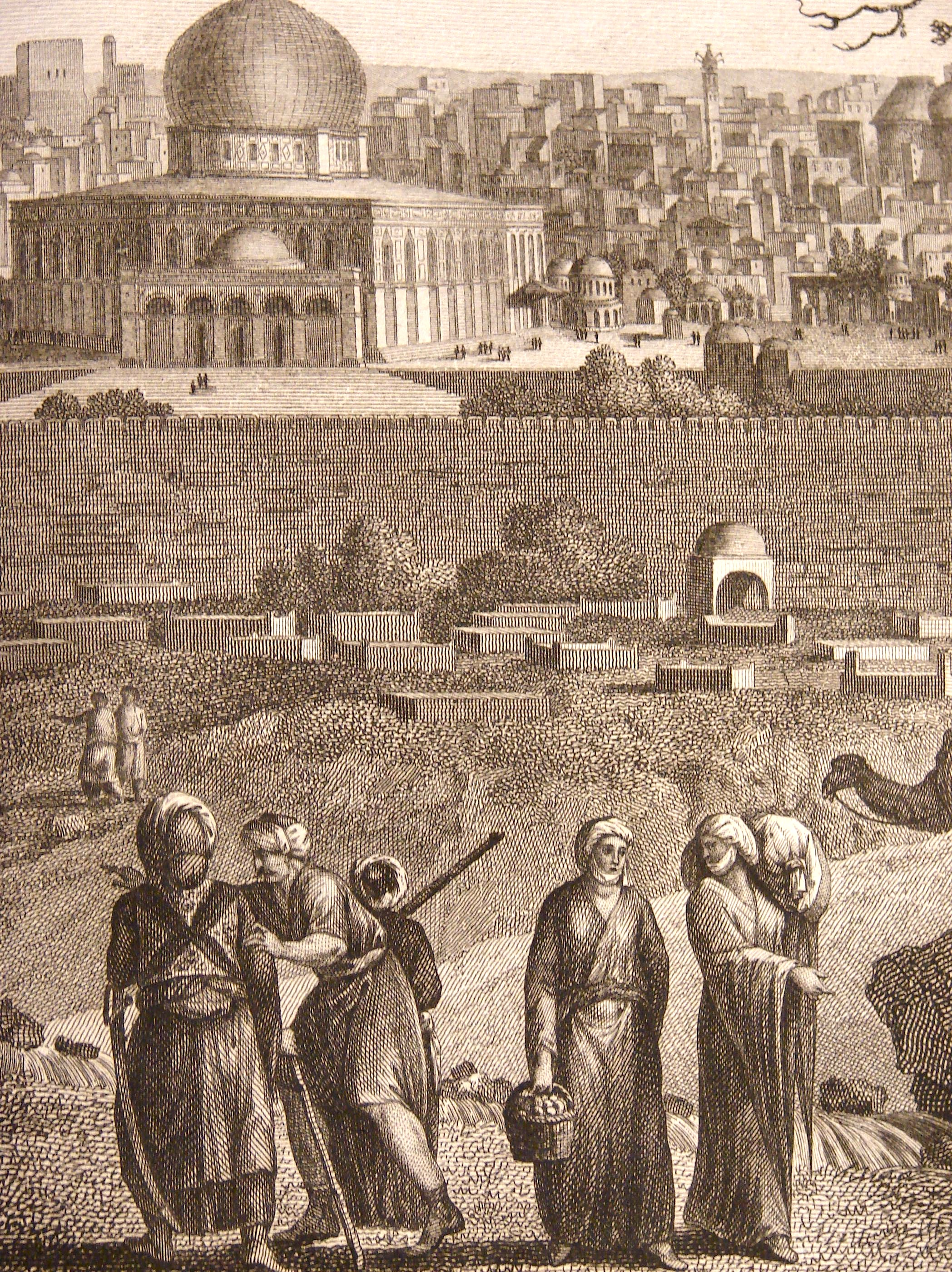 Engravement of Jerusalem The dome of the rocks